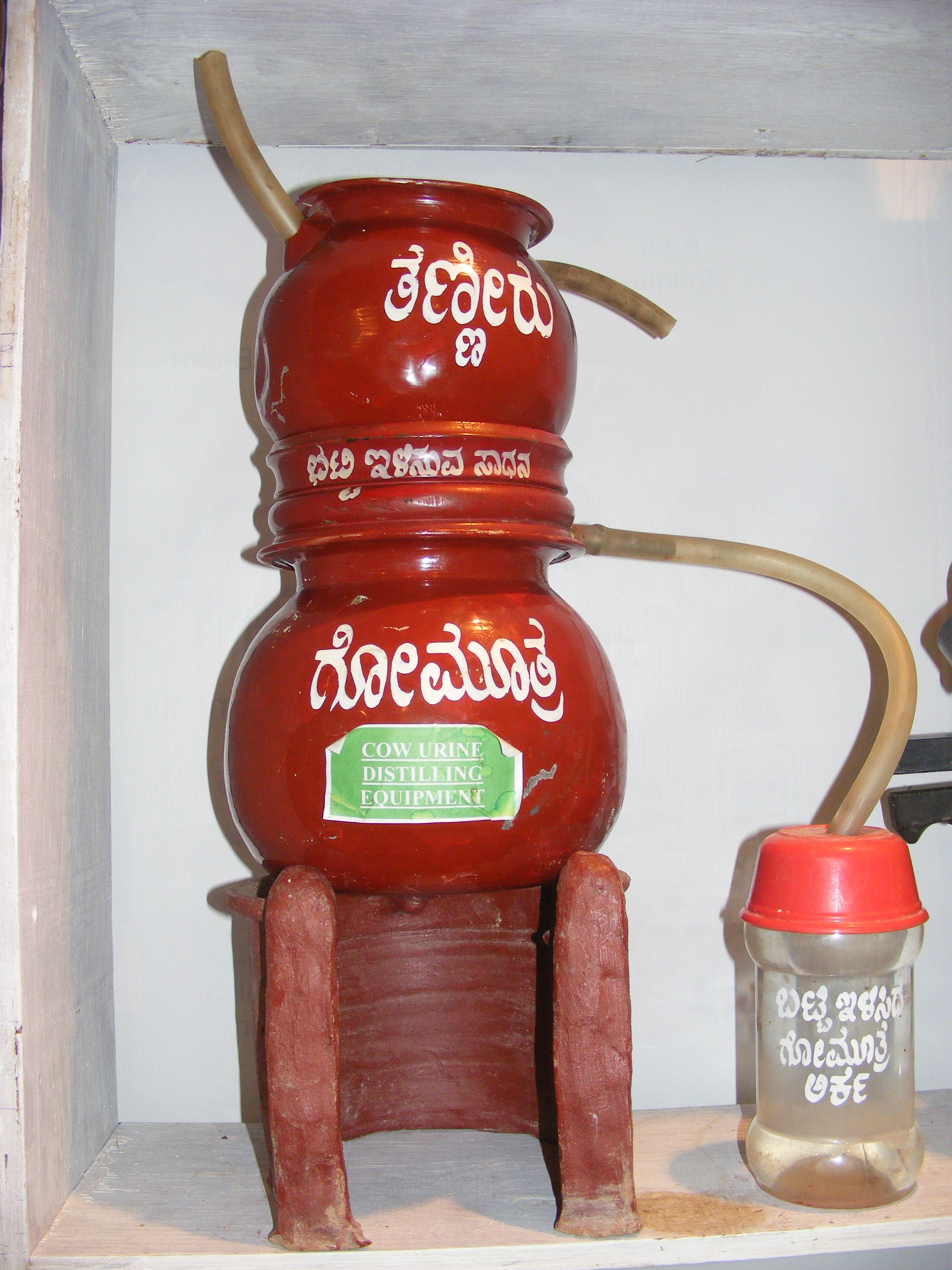 Plant to process cow urine to get nitrogen in India